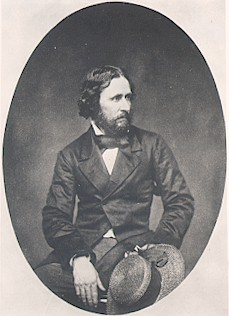 Picture of J. C. Fremont